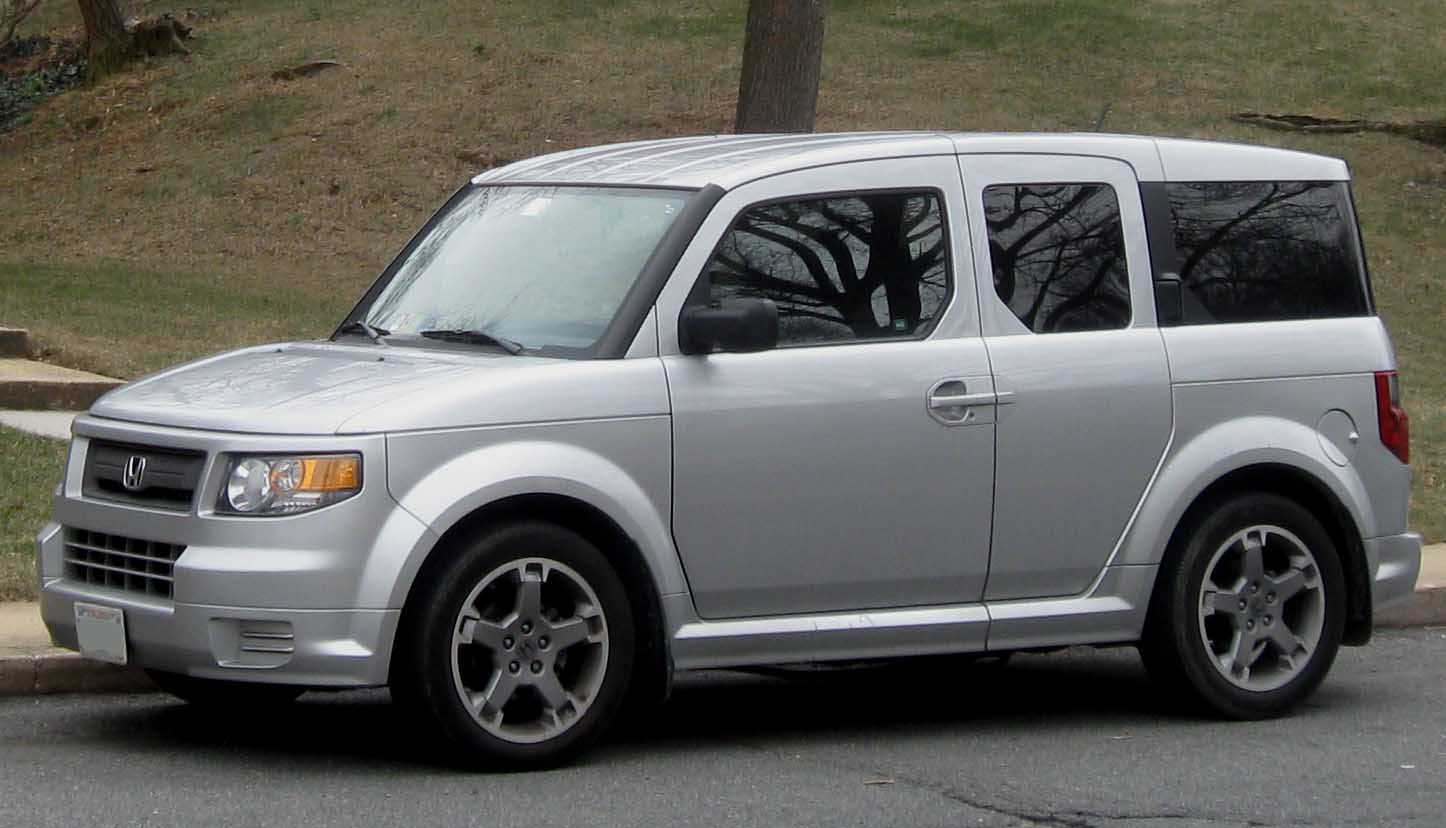 2007-2008 Honda Element photographed in Alexandria, Virginia, USA.